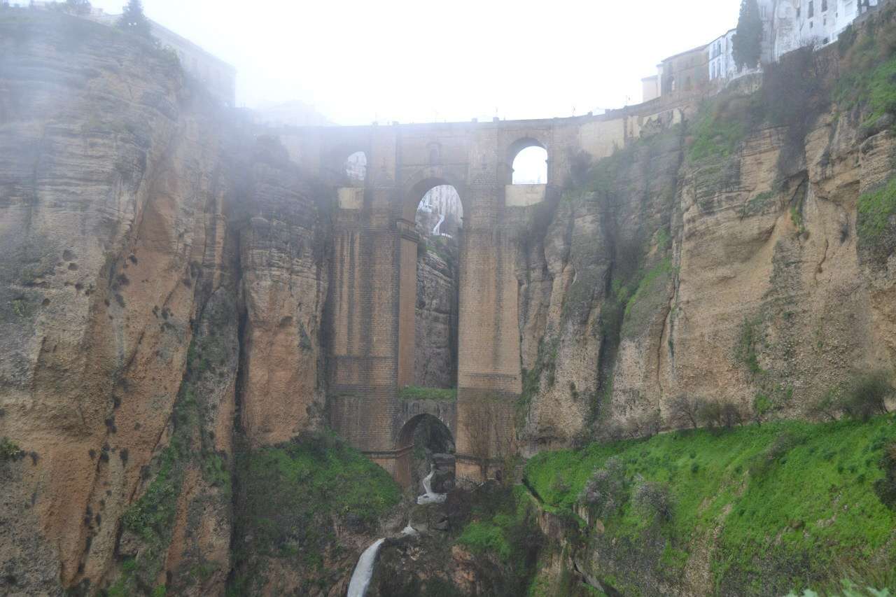 The Puente Nuevo in Ronda, Spain. 29 Jan 2013